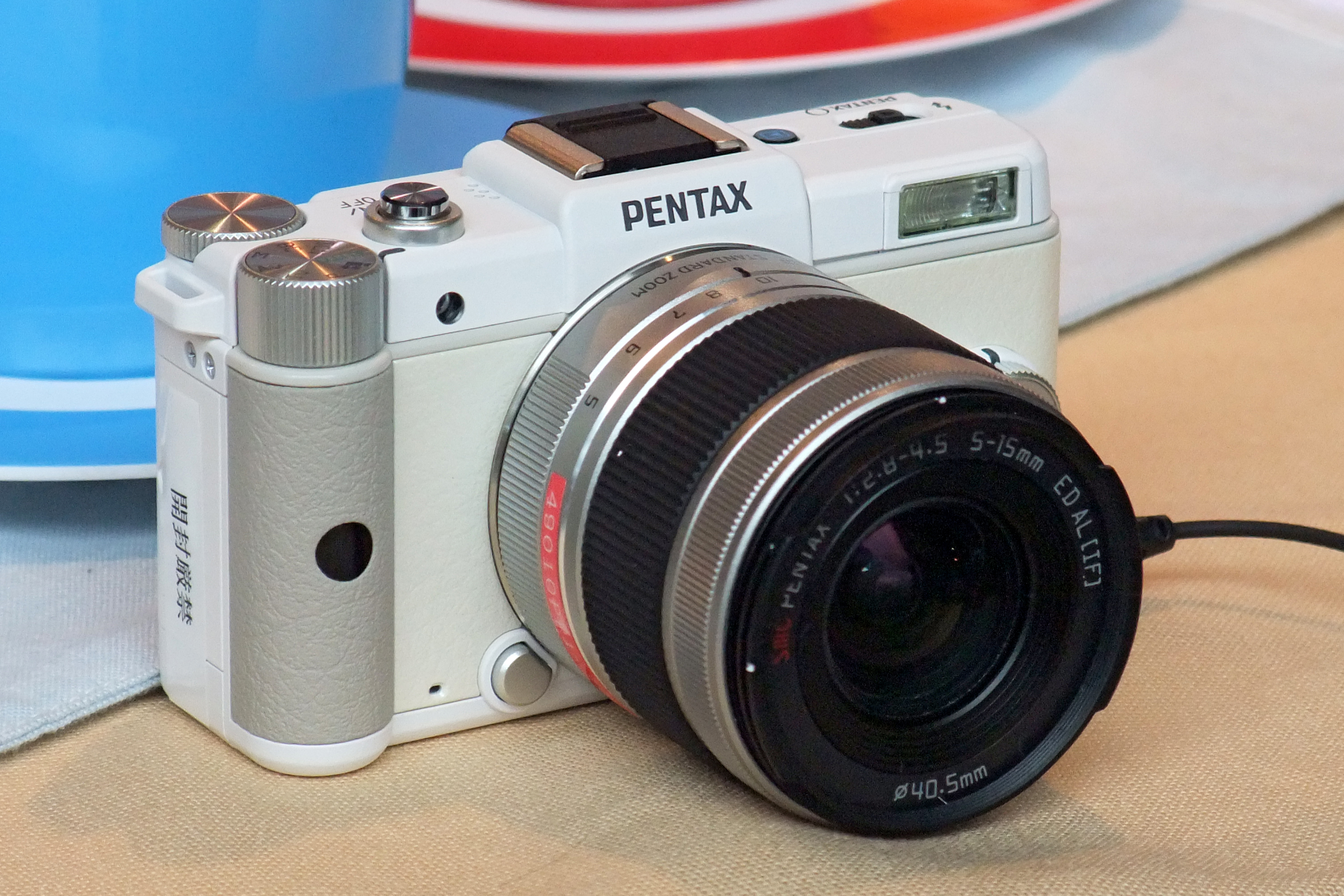 Pentax Q, at Osaka Station, Japan